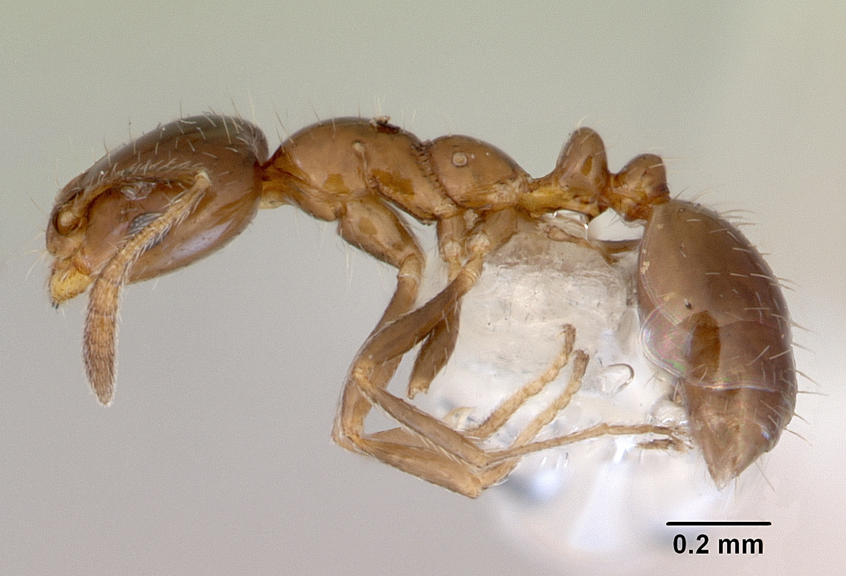 Profile view of ant Monomorium fieldi specimen casent0172355.